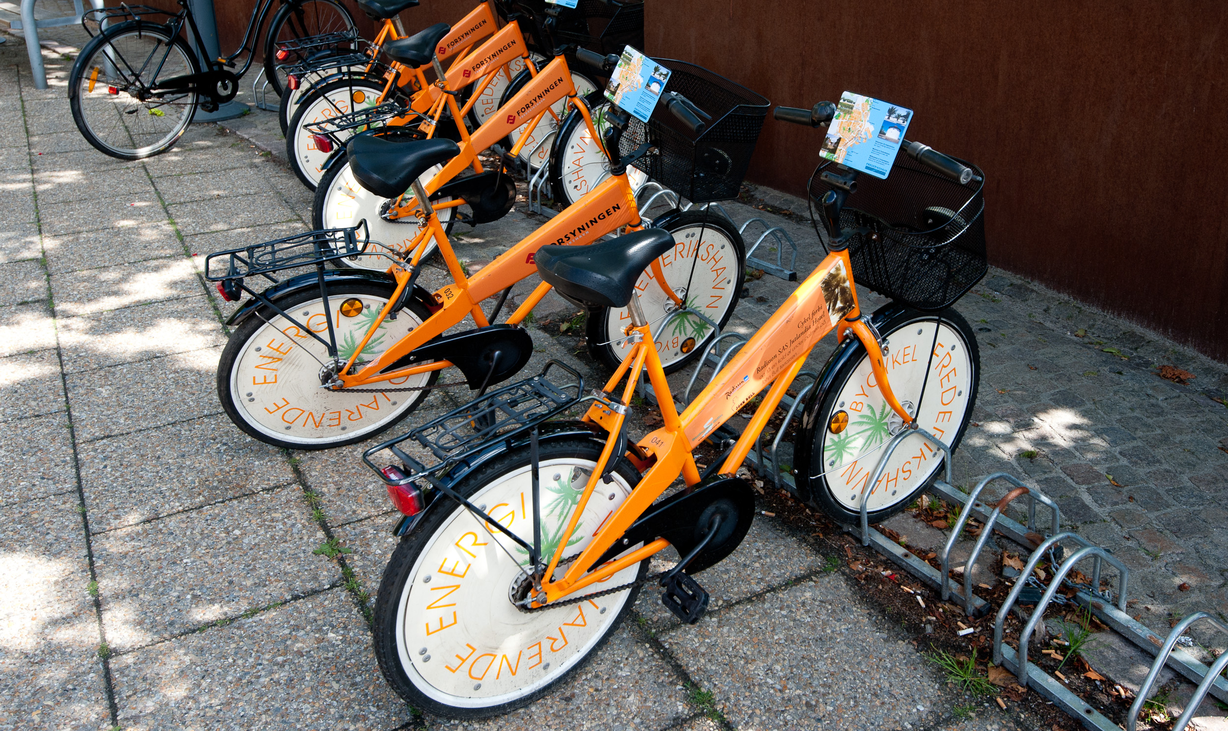 Public bicycles in Frederikshavn